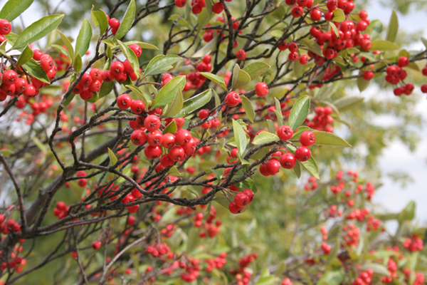 Red Chokeberry - Aronia arbutifolia (L.) Pers.